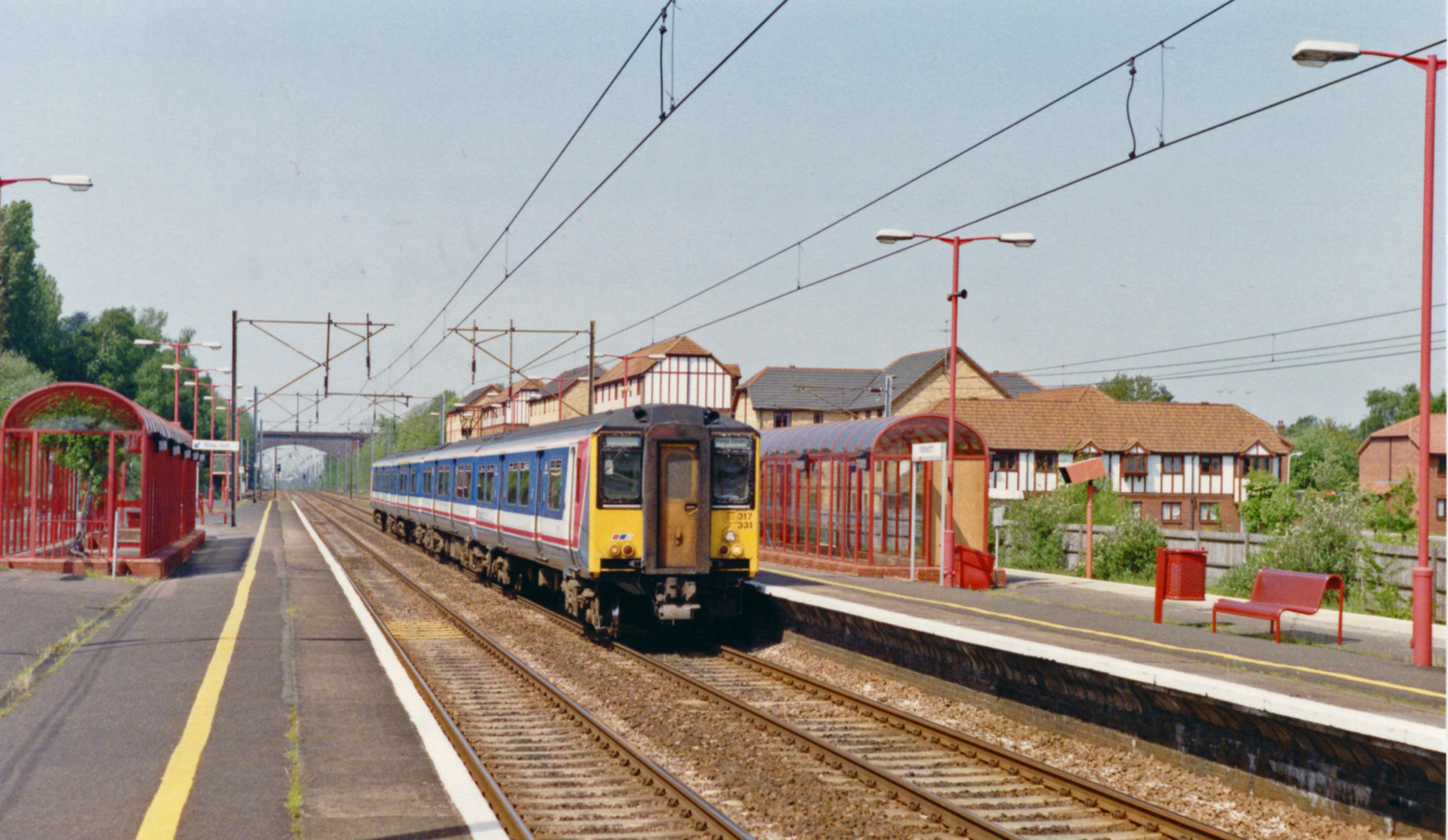 Knebworth station, 1992. View northward, towards Hitchin and the North: ex-GNR ECML. EMU No. 317.331 is passing on an Up service, probably from Cambridge or Peterborough.